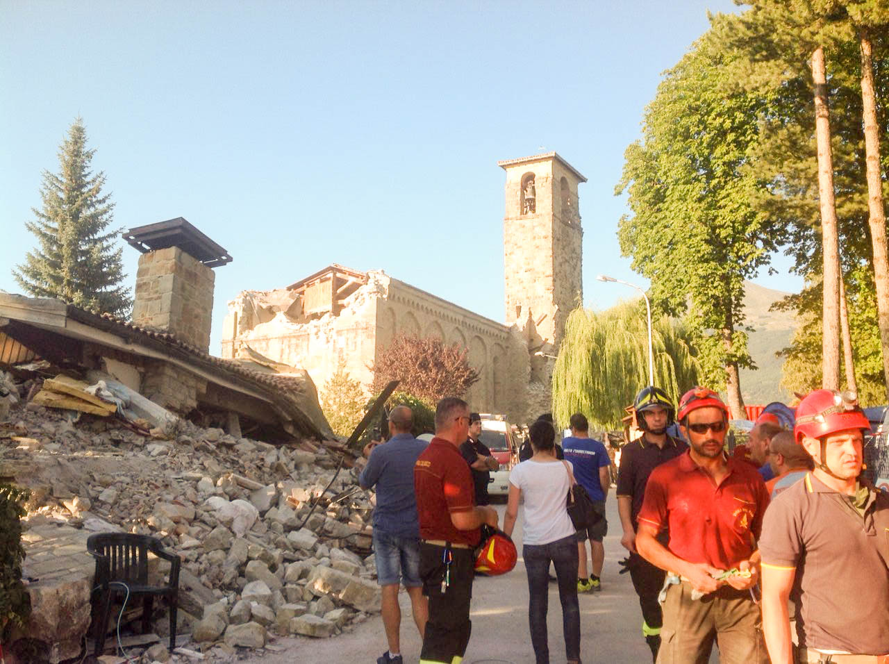 2016 Central Italy earthquake